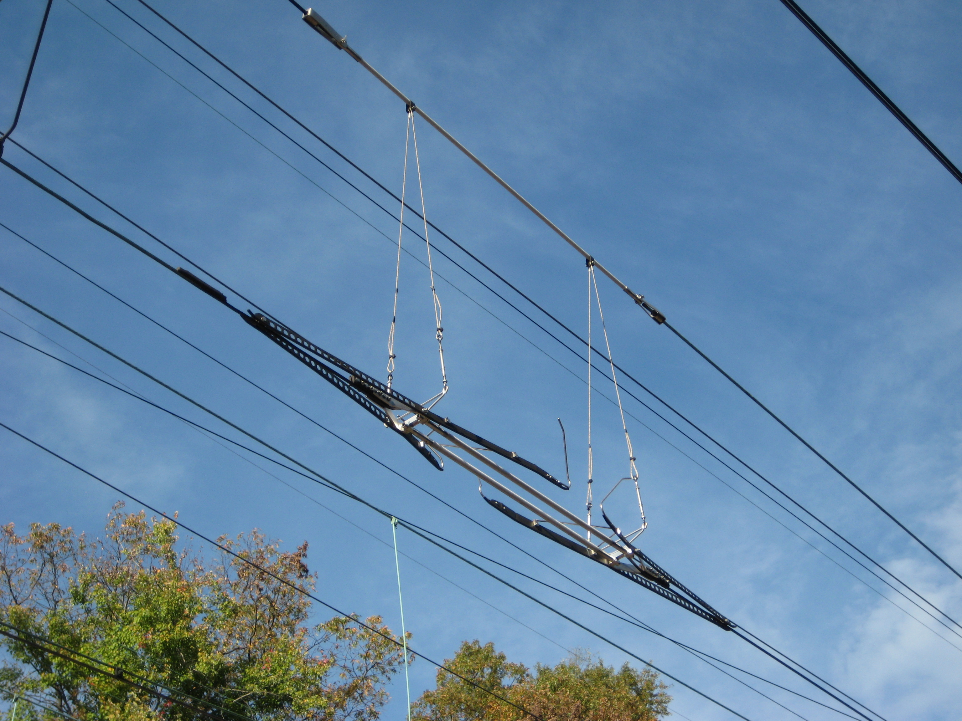 An insulator at a section break on 12 kV, 25 Hz catenary The white parallel rods are fiberglass insulators. A passing pantograph will bridge the metal runners, shorting the two sections of catenary together. Note that the arcing horns diverge as they rise above the runners, this helps to extinguish the arc which is formed whenever a pantograph travels under the runners. Mcg410 (talk) 03:29, 27 December 2010 (UTC)